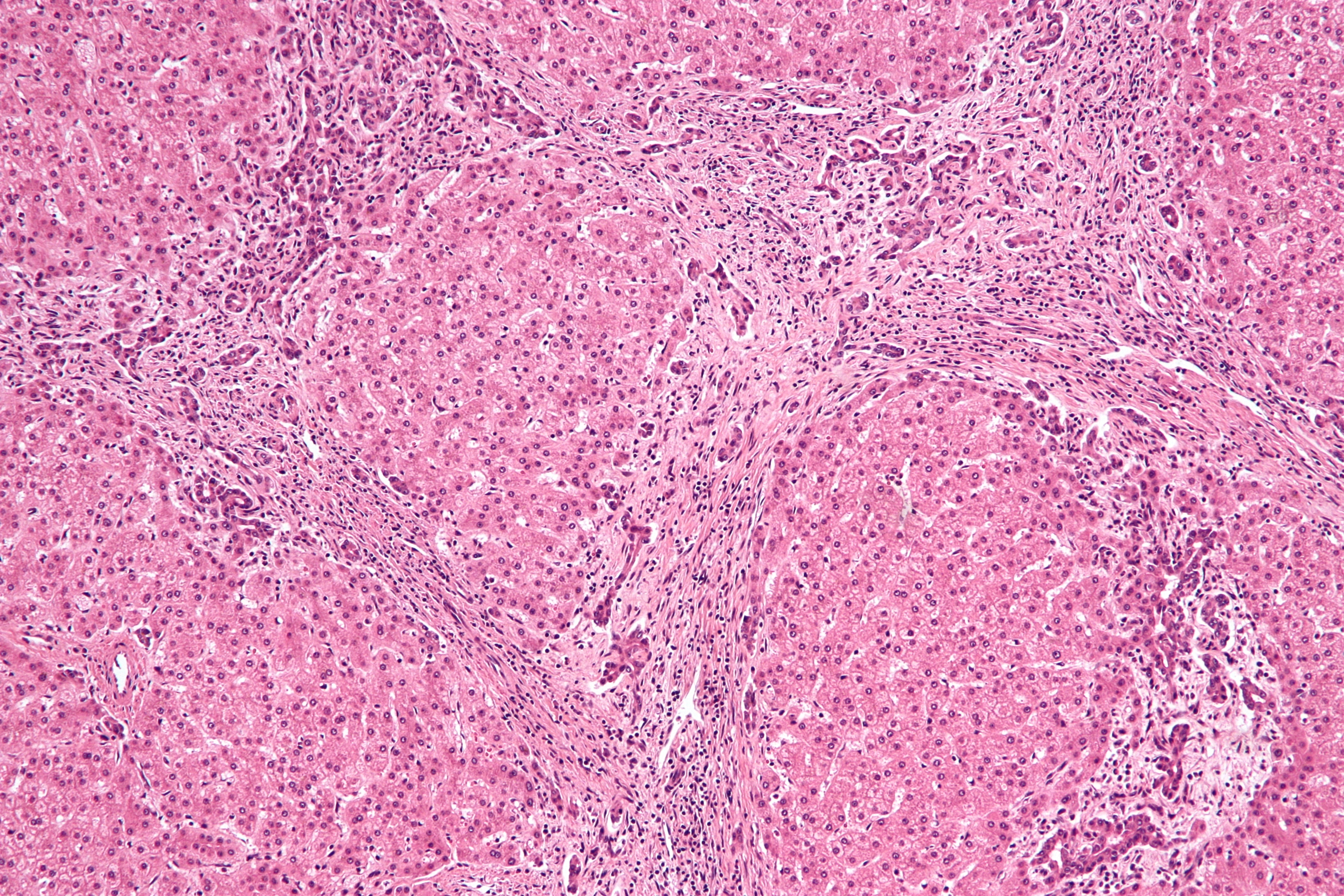 Intermediate magnification micrograph of focal nodular hyperplasia of the liver. H&E stain. Related images Very low mag. Low mag. Intermed. mag. High mag. Very high mag.